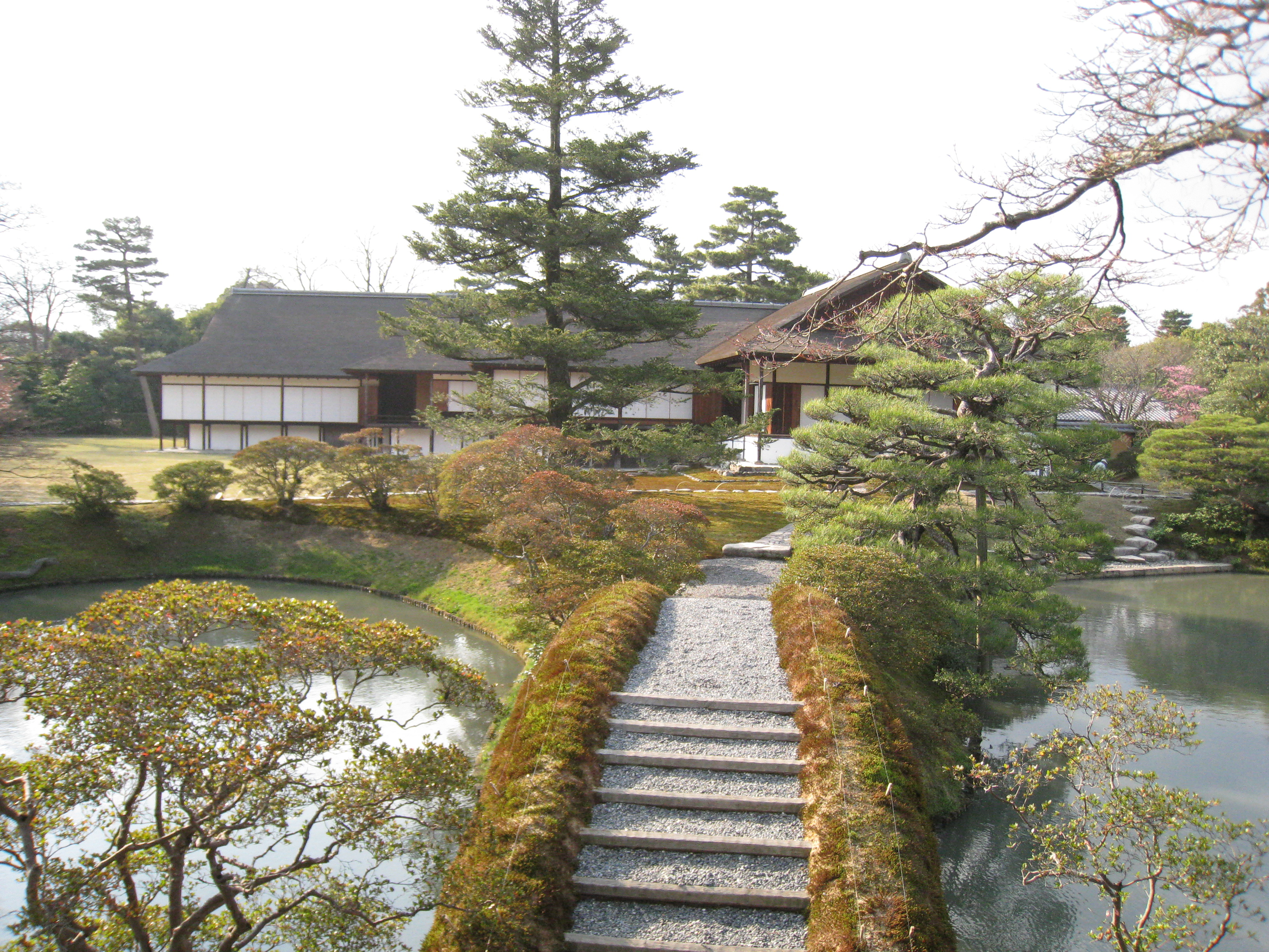 Imperial Villa of Katsura. Bridge from the Shokatei tea pavilion. Behind the big pine: Intermediate Shoin, space corresponding to the audience room. To the right of the large pine: veranda overlooking the Terrace of the Moon (hidden by the twisted pine) and giving access to the Old Shoin, in an antechamber. The Geparro is not visible, it would be on the far right behind the trees. The clear roof is a modern building. An access to the veranda can be done by a stone path (visible under the last branch of the big pine), and the veranda gives access to a door (here a dark opening). Two other accesses of this same type lead to this veranda. The main entrance gate is on the right, behind the Geparro pavilion, from where a stony but oblique path leads to the main gate of the Old Shoin by large external steps.